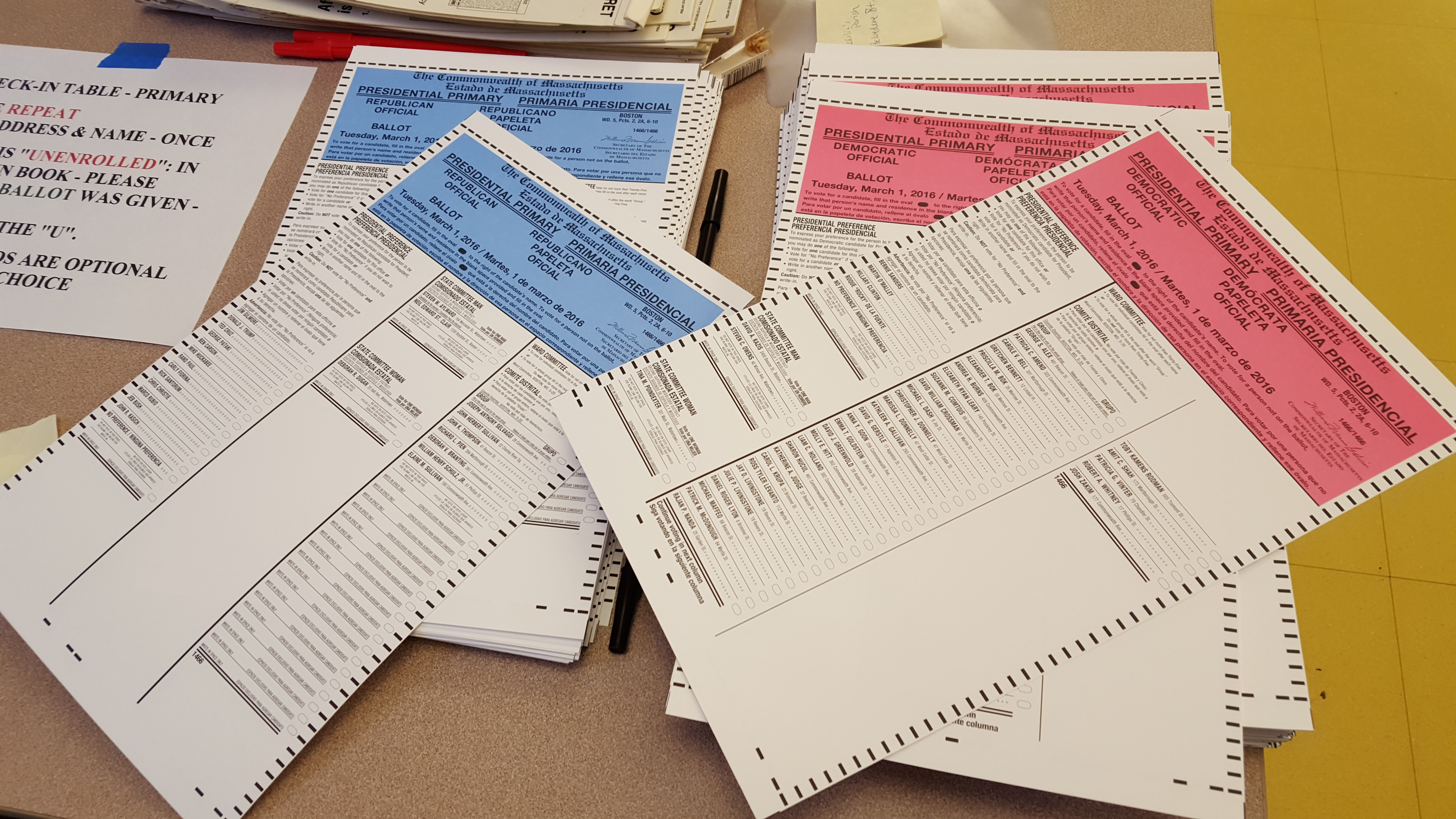 A photo of Super Tuesday presidential primary election ballots in Massachusetts.